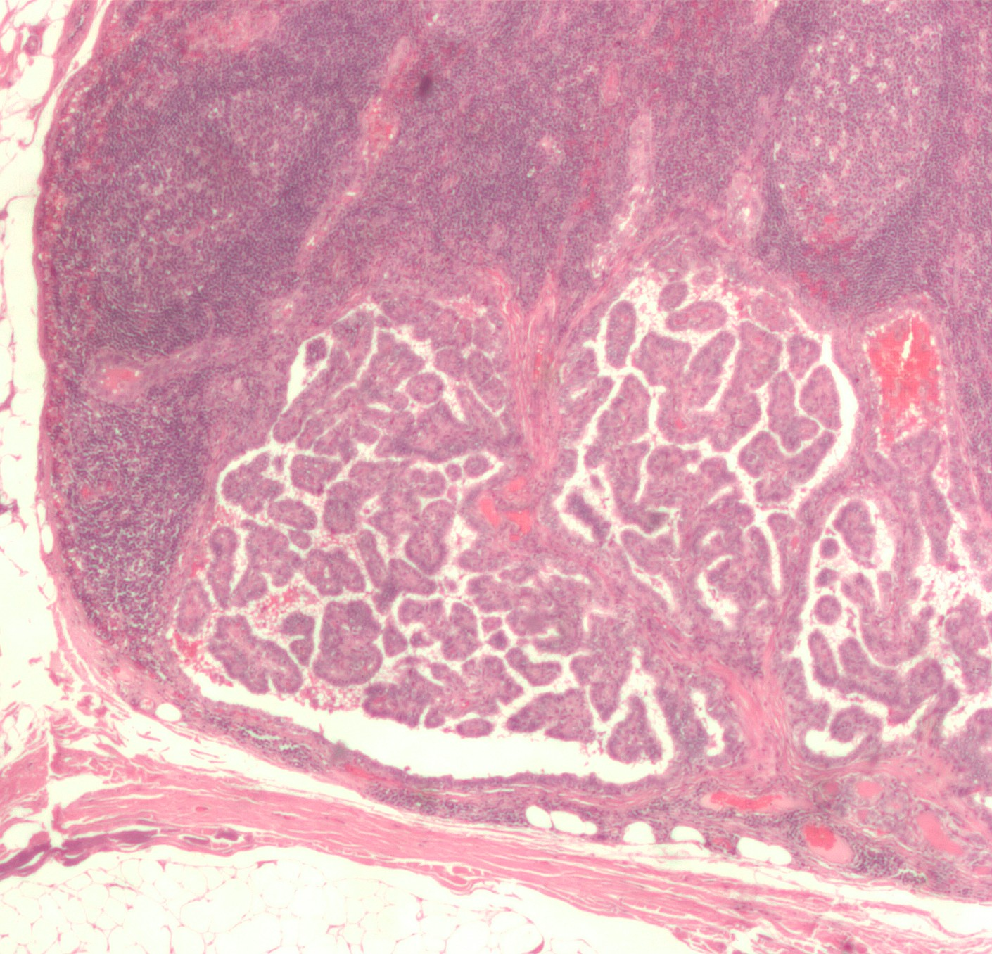 Lymph node with metastasis of papillary thyroid carcinoma (middle/bottom of image). The papillary thyroid carcinoma (thyroid cancer) shown here has the classically described appearance (papillary architecture -- papillae with fibrovascular cores). The diagnostic nuclear features for papillary thyroid carcinoma (nuclear inclusions, nuclear grooves, nuclear clearing, overlap of nuclear membranes/crowding) are present but not seen well at this magnification. The lymph node has several germinal centers (left, top/right of image). Adipose tissue (fat) is seen at the edge of the image (bottom and left).